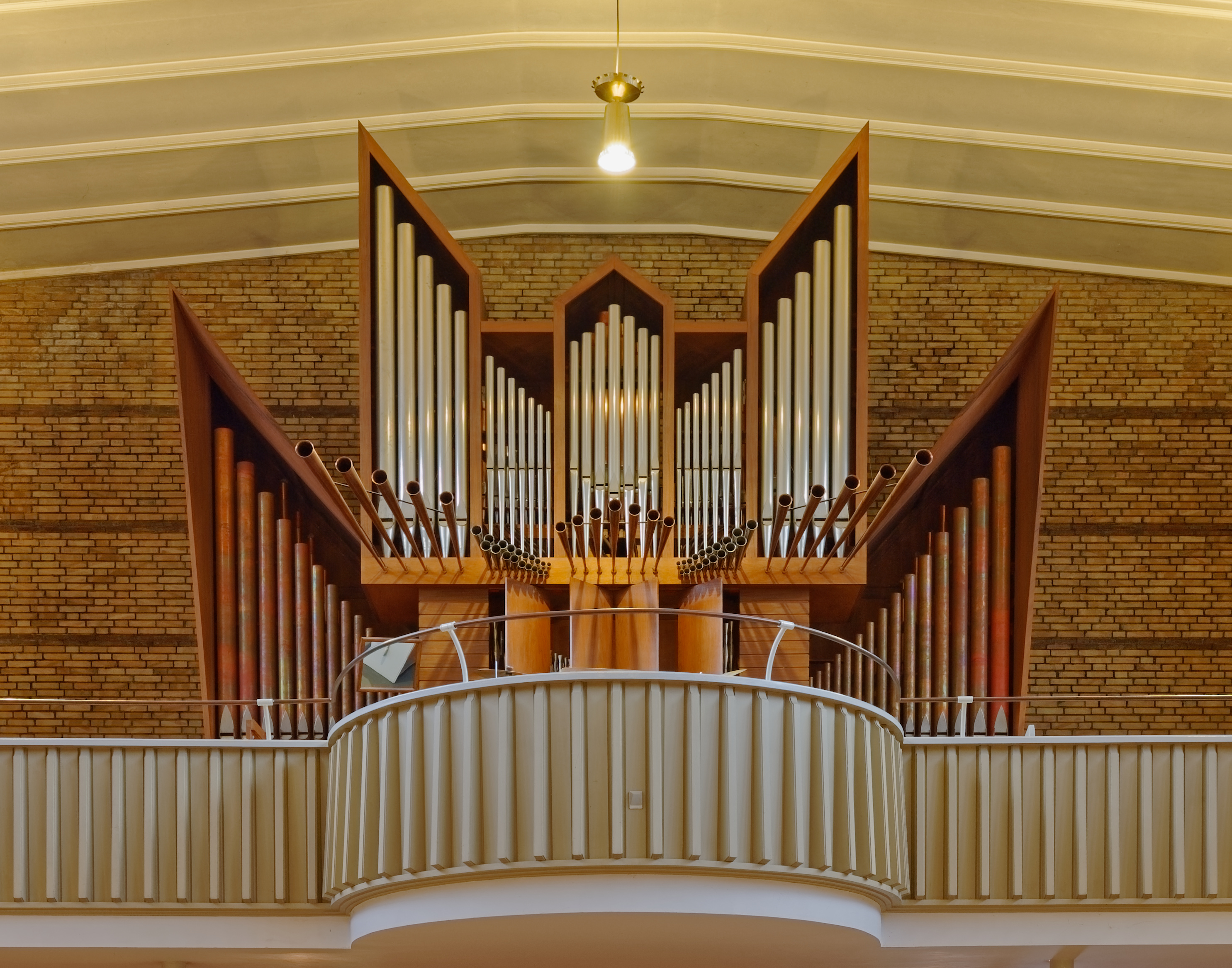 Paul-Gerhardt-church, Hamburg-Bahrenfeld, interior